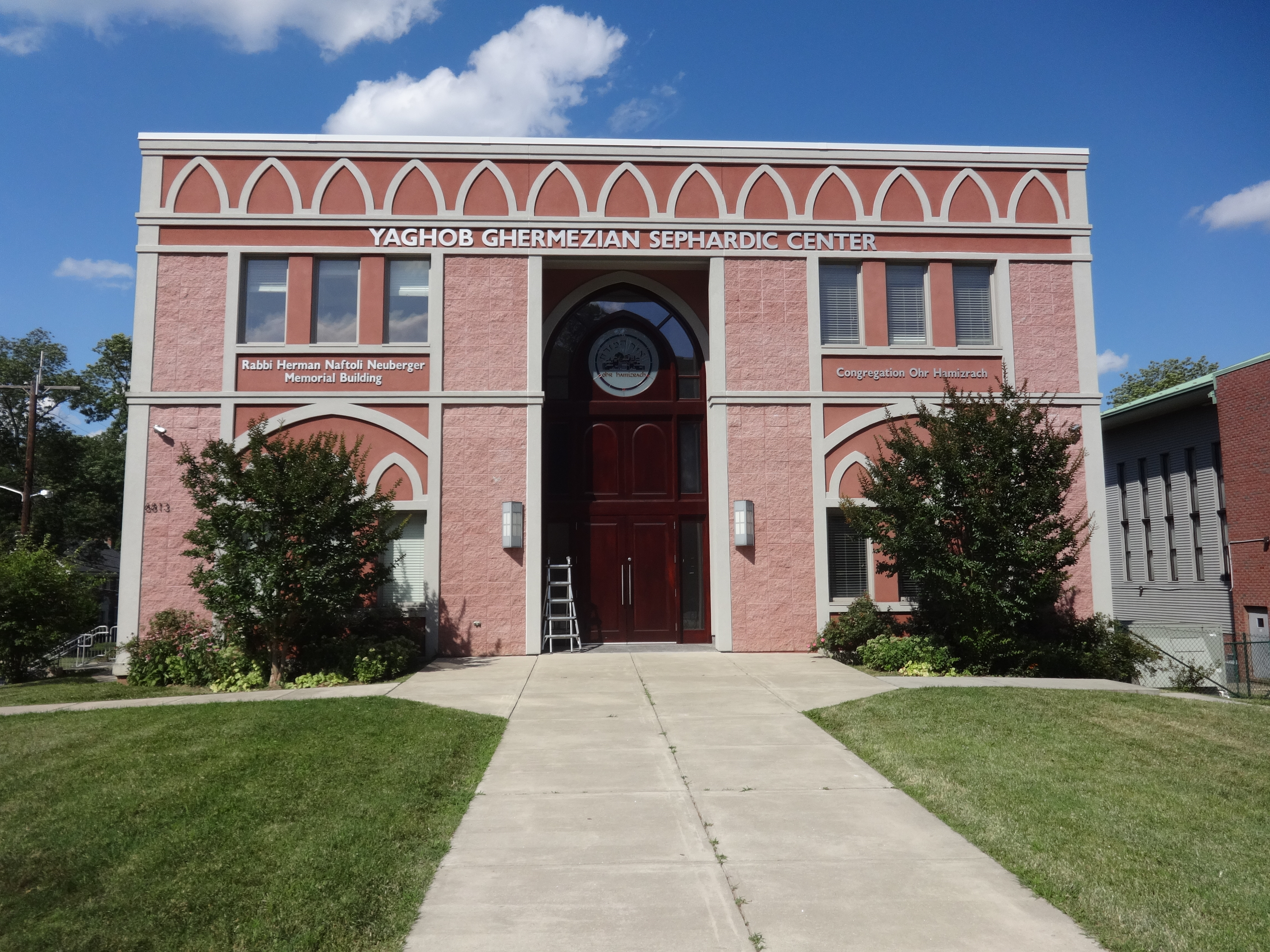 Yaghob Ghermezian Sephardic Center (Rabbi Herman Naftoli Neuberger Memorial Building and Congregation Ohr Hamizrach), a Persian-Jewish synagogue and center in Baltimore, Maryland.